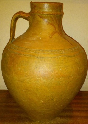 Small cántaro of learning, also ritual pitcher of compromise that gives the boy to the girl that is getting married. Ancient tradition in Spain. This model is made in Talarrubias (Badajoz).